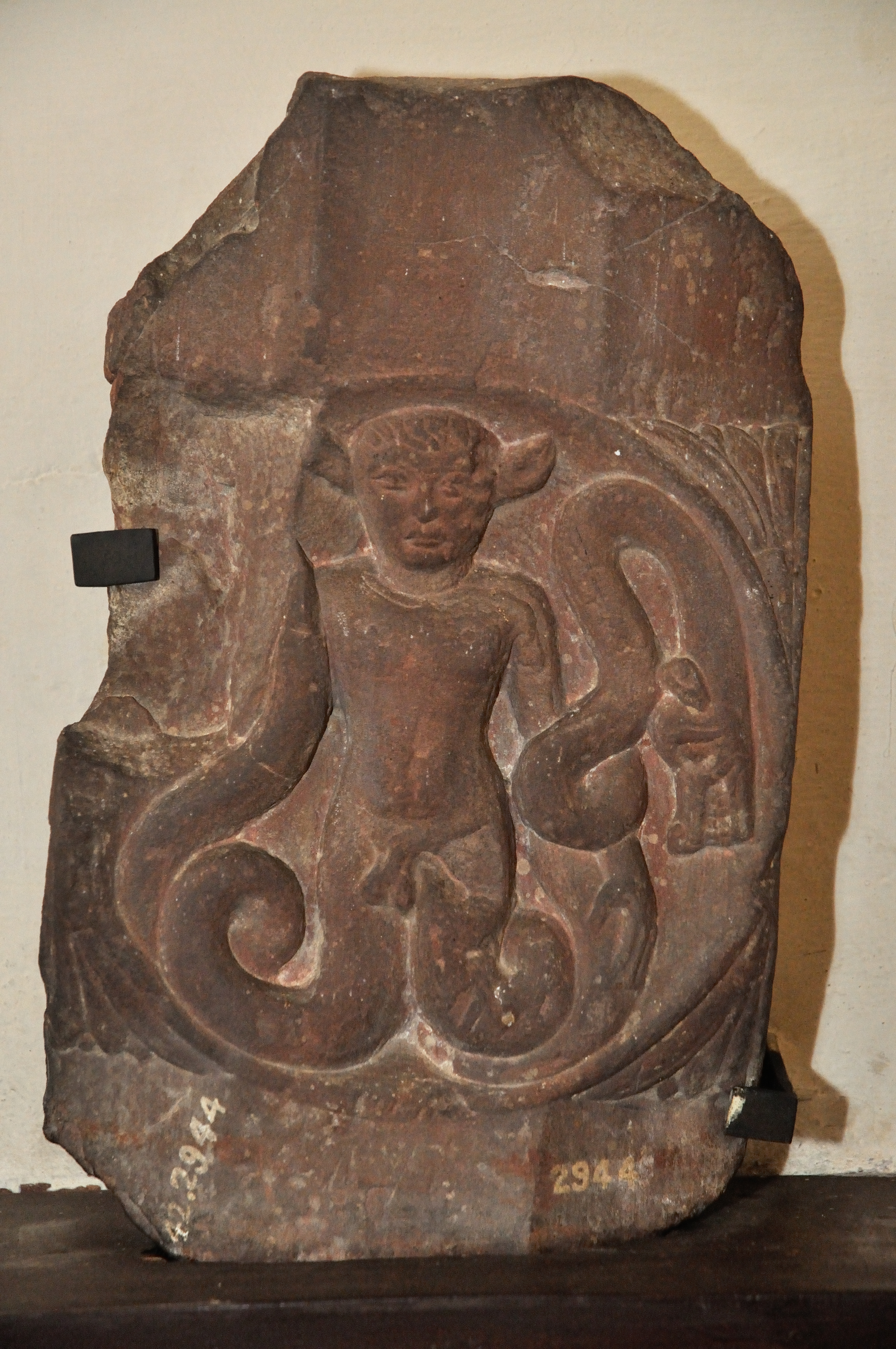 This artefact resides at the Government Museum, (hi: Rashtriya Sangrahalaya) formerly The Curzon Museum of Archaeology, Museum Road or Murari Lal Rajpal road, Dampier Nagar, Mathura, Uttar Pradesh, India. This museum is administrating by the State Government of Uttar Pradesh of India.